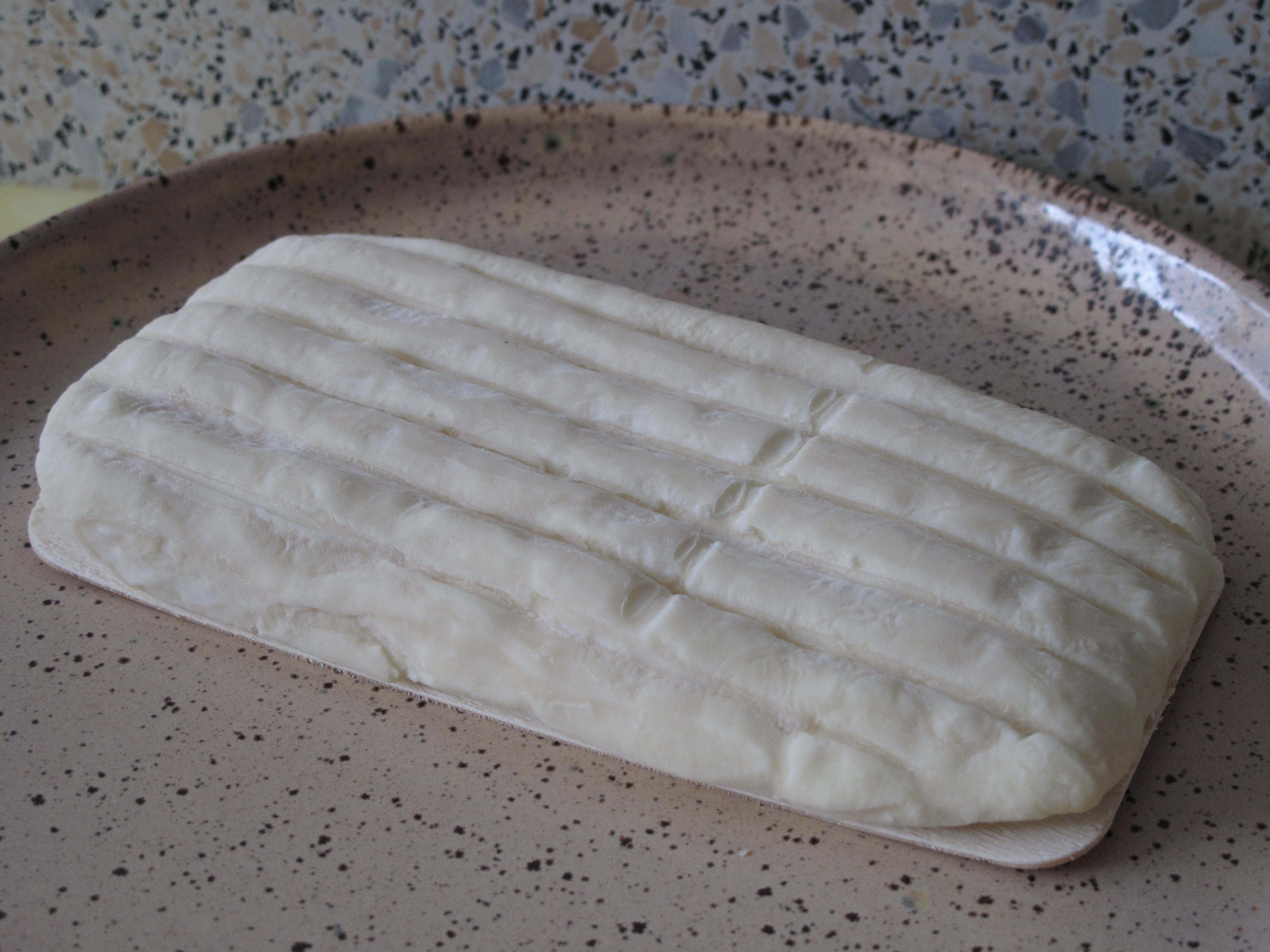 French goat's milk cheese "la brique du Forez" (="Forez brick", Forez is an old province in the center of France, around the town of Ronanne)